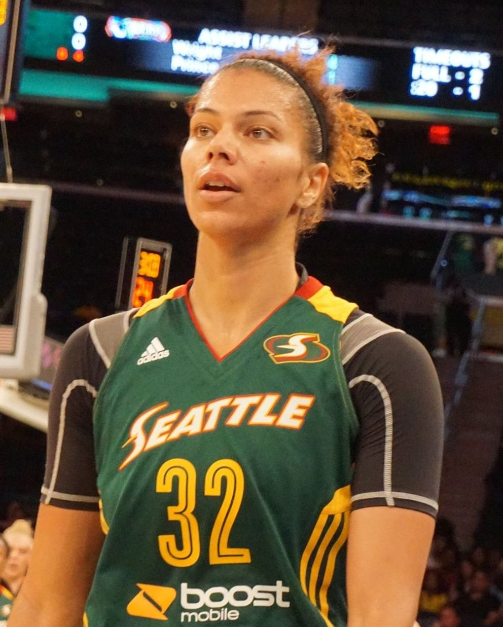 Alysha Clark at 2 August 2015 game